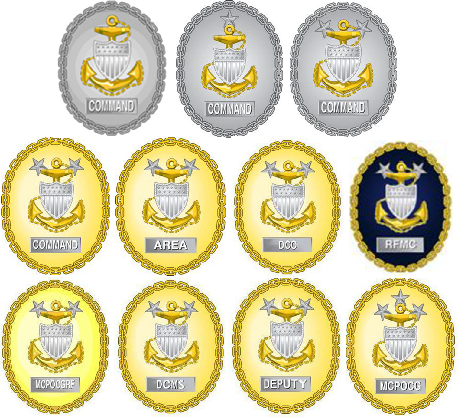 Command Chief Petty Officer Badges of the U.S. Coast Guard